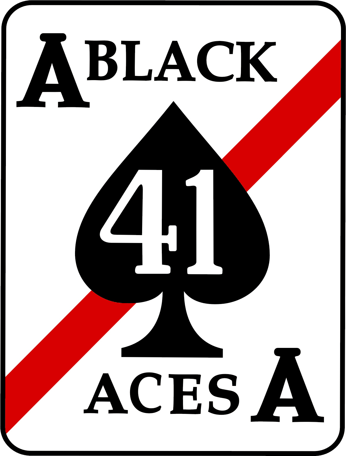 Insignia of the U.S. Navy Fighter Squadron 41 (VF-41) "Black Aces".